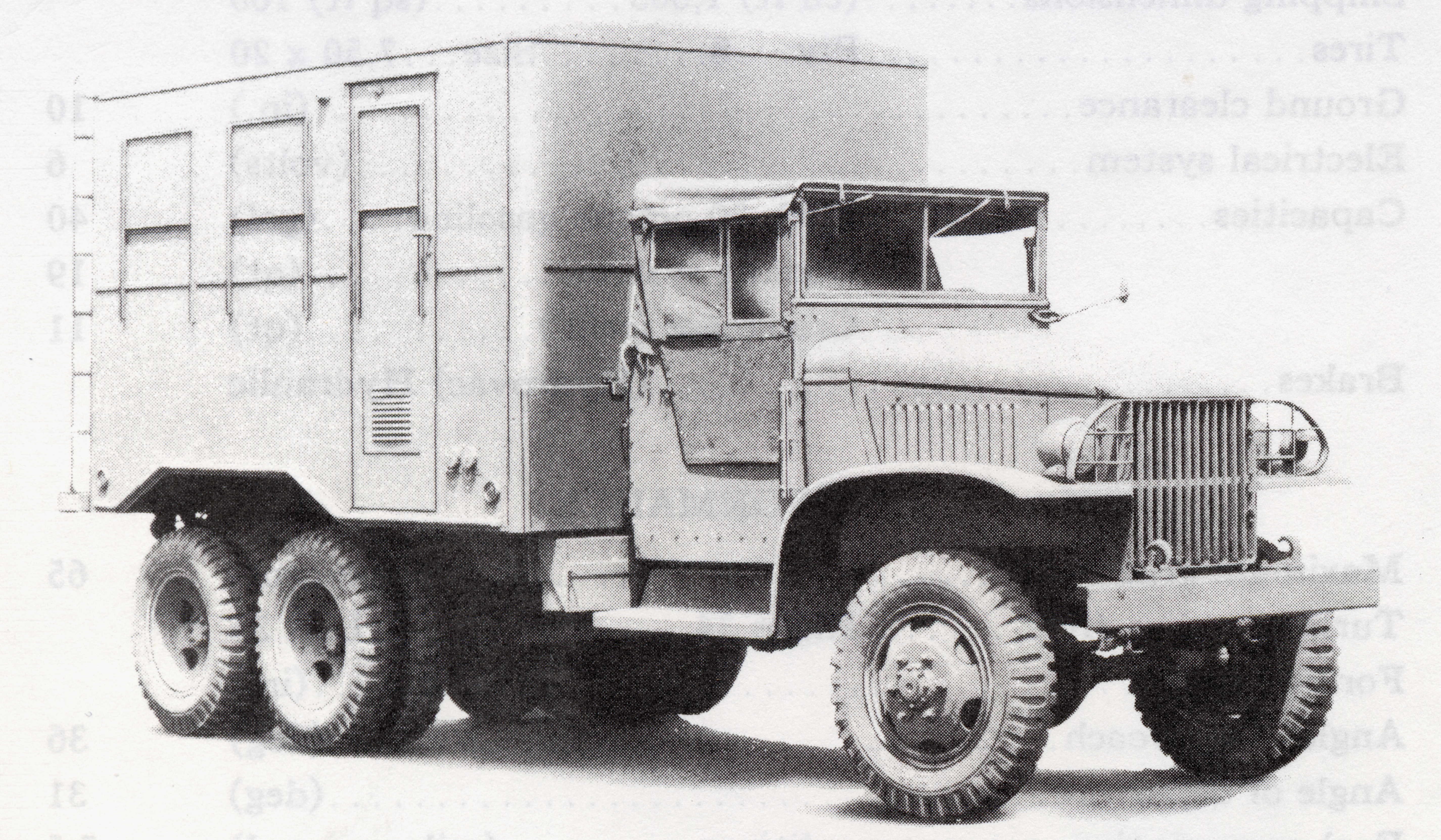 K-53 shop van